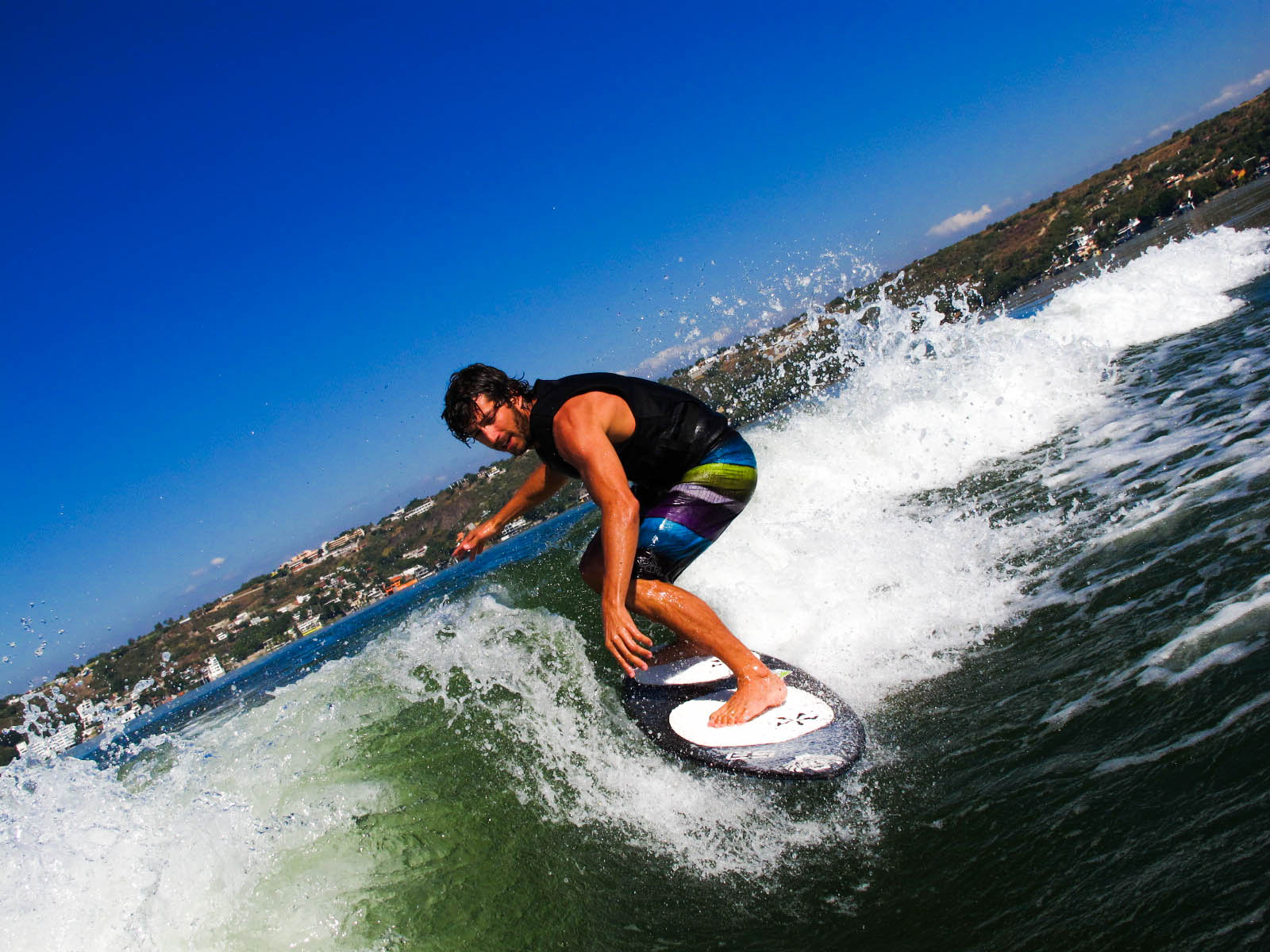 Wakesurf at Tequesquitengo Lake Mexico